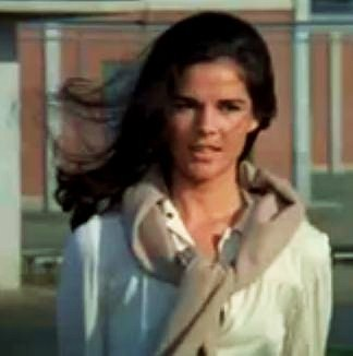 Ali MacGraw in the trailer for The Getaway (1972 film). Trailer published between 1923 and 1977 (inclusive) without a copyright notice.